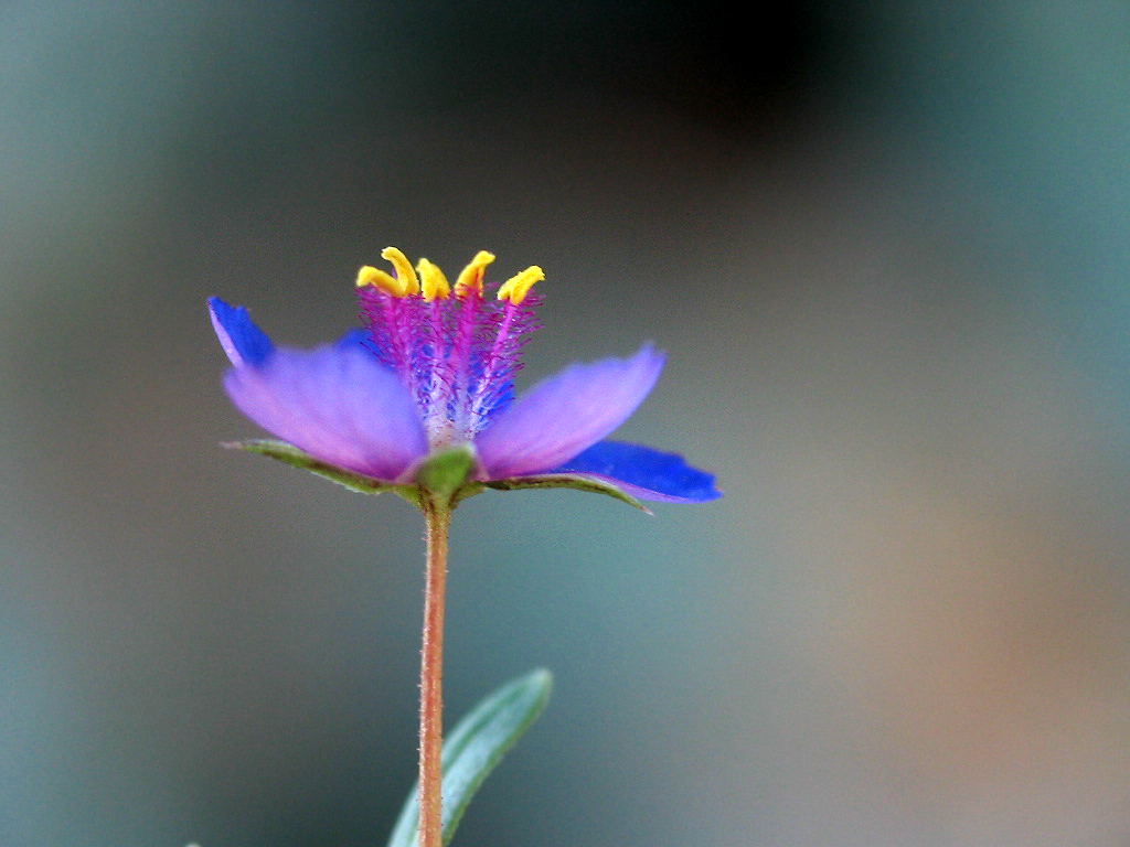 Anagallis foemina (commonly known as Poorman's Weatherglass ) is a low-growing annual herbaceous plant of the genus Lysimachia belonging to the Myrsinaceae family